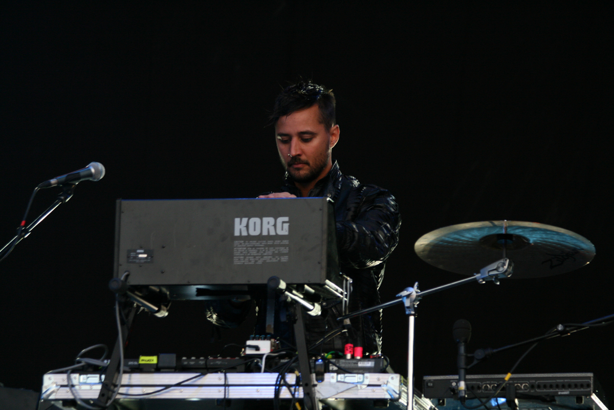 Svein Berge of Röyksopp playing live in Hungary (2009).